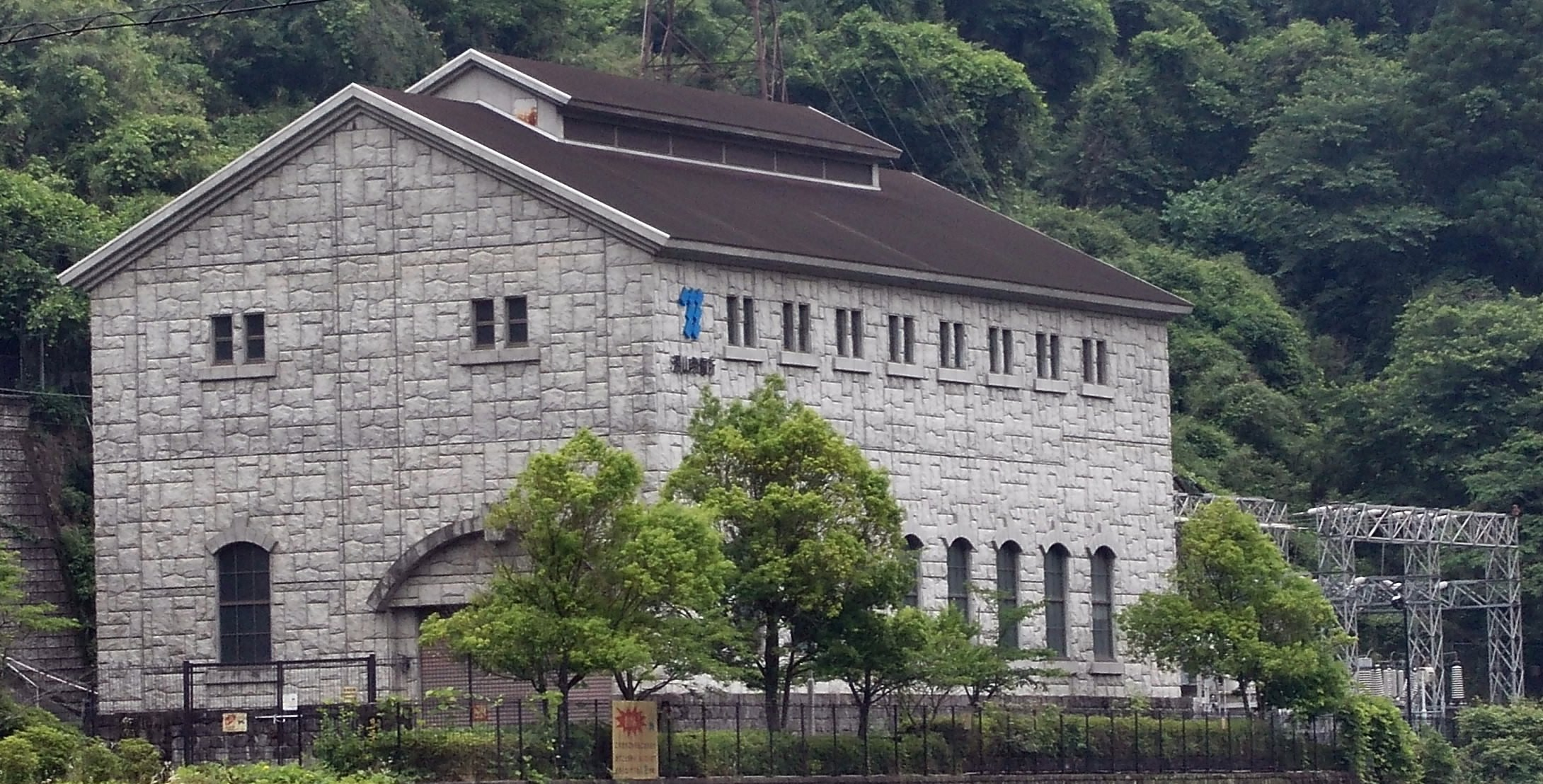 The Kyushu Electric Company Yuyama Power Station in the Amagase District of Hita City, Oita, Japan.